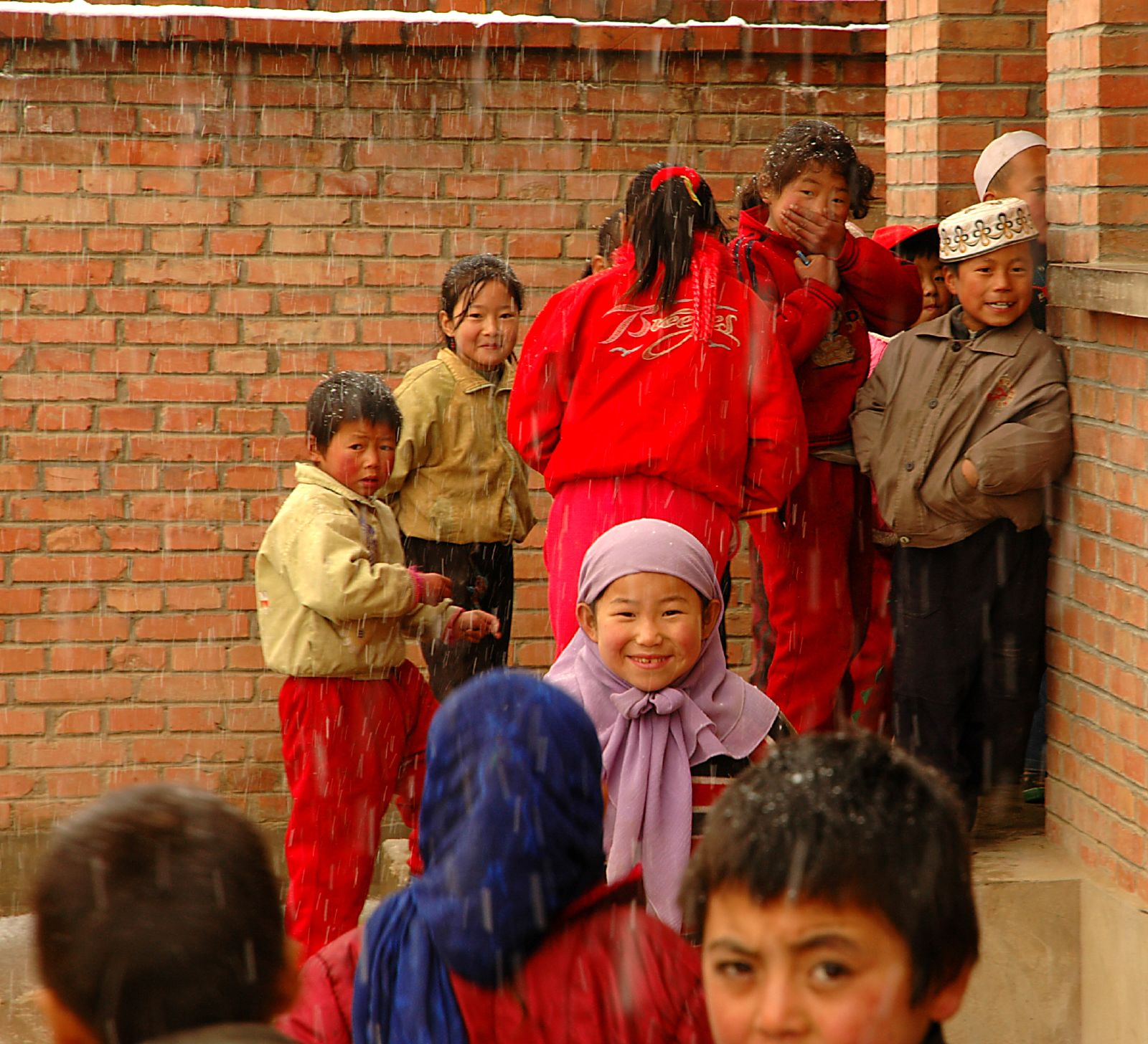 Muslim students en route to the start of classes, at a Primary School in Jishishan County, Gansu, China